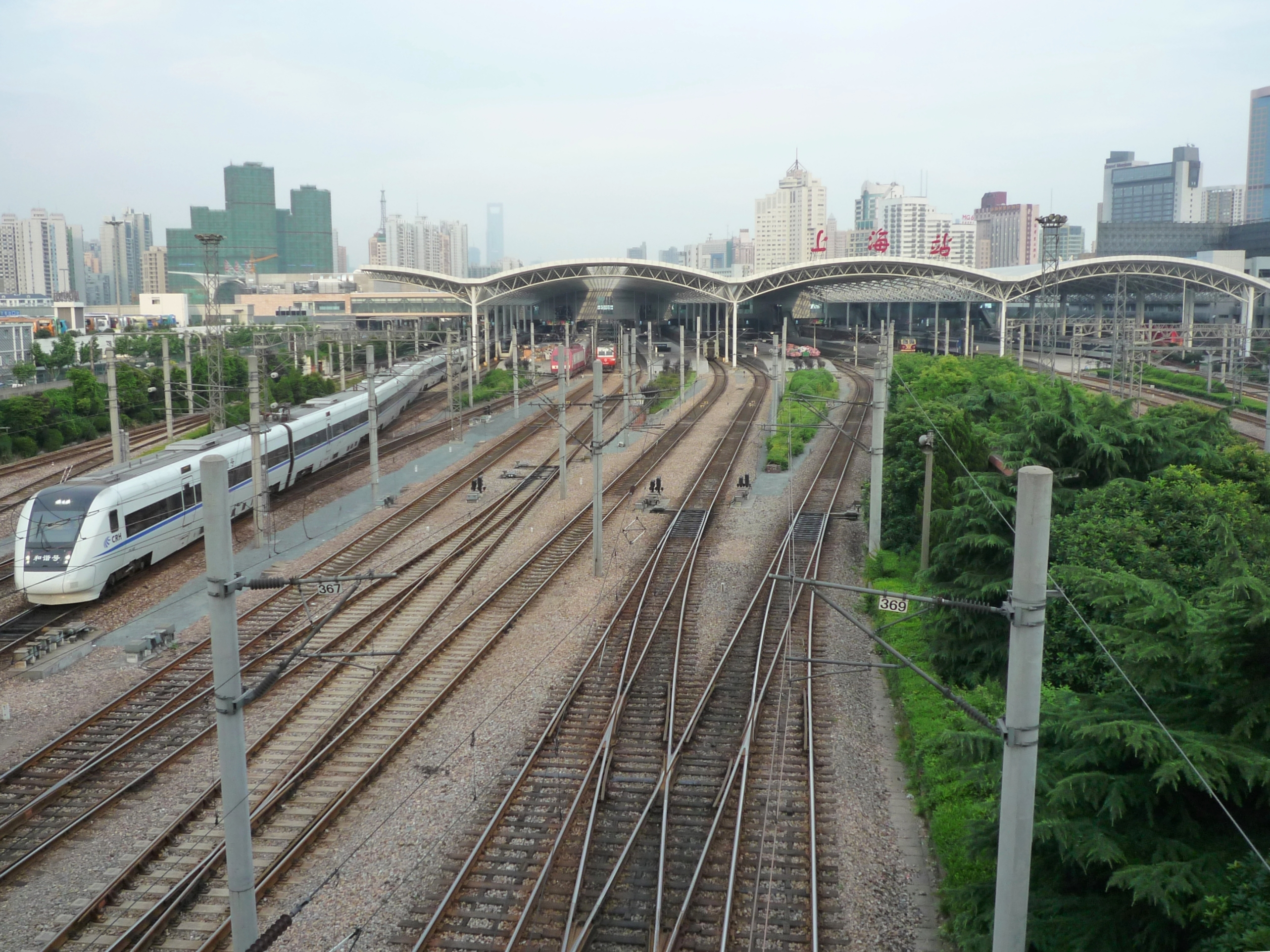 Shanghai railway station flom hengfenglu bridge